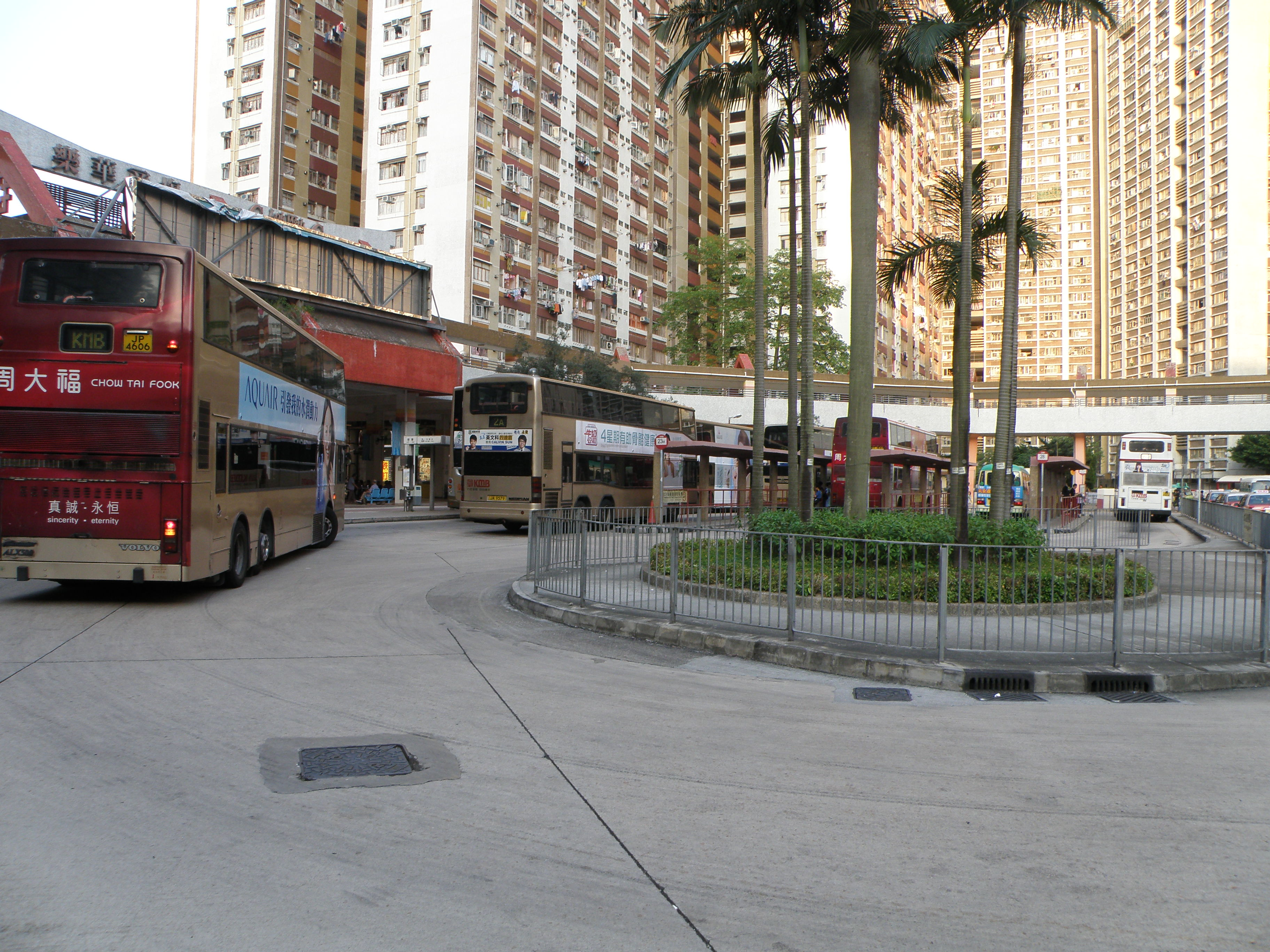 Lok Wah Bus Terminus in Ngau Tau Kok, Hong Kong.